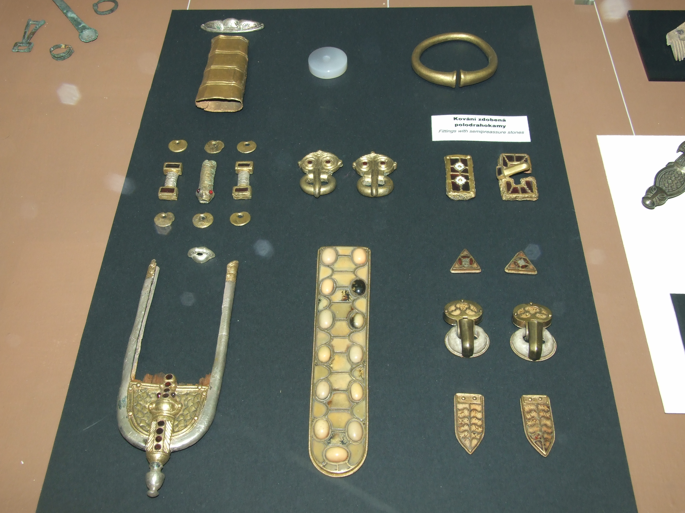 Prehistoric Times of Bohemia, Moravia and Slovakia, National Museum in Prague. Collection of sword (spatha) and belt of rich burial from Blučina; Migration Period